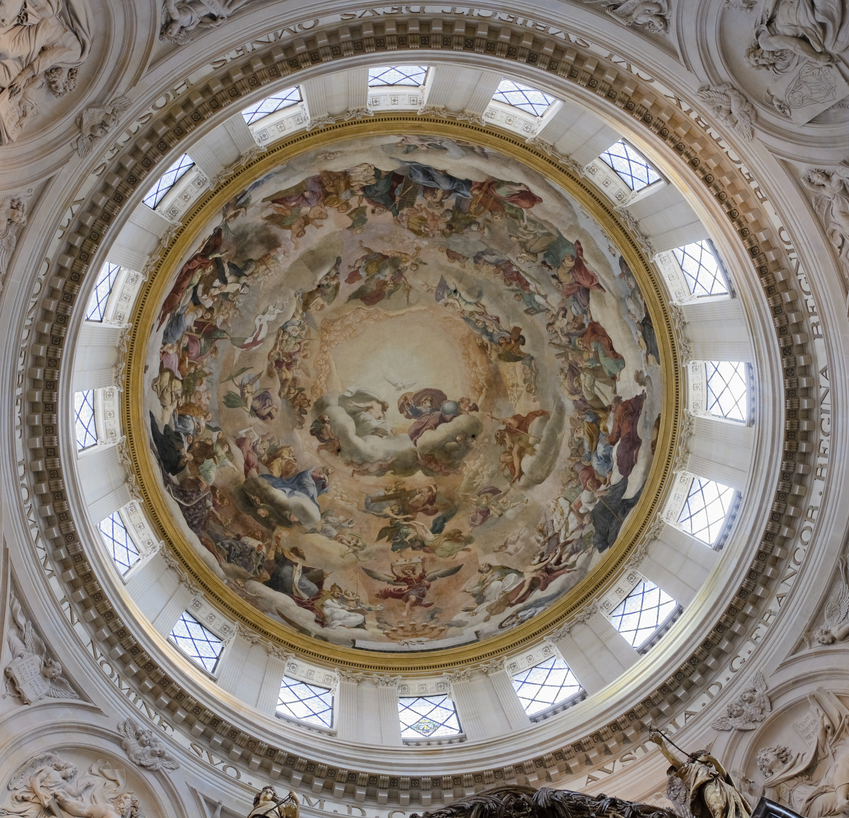 Church of Val-de-Grâce, Paris, France: the monumental fresco of the cupola, work of Pierre Mignard to whom it had been ordered in 1663.